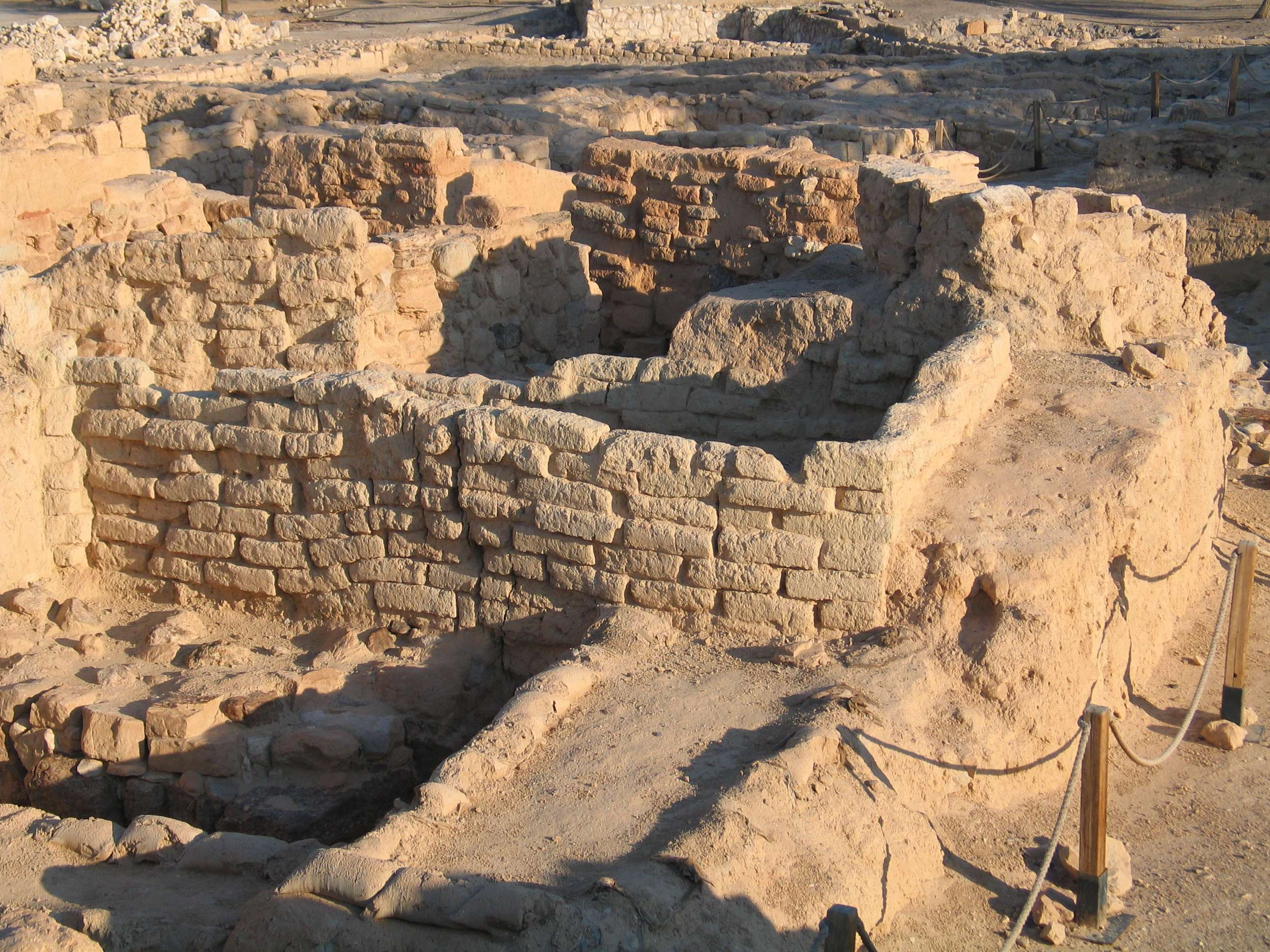 Metsad Hatseva, Israel.